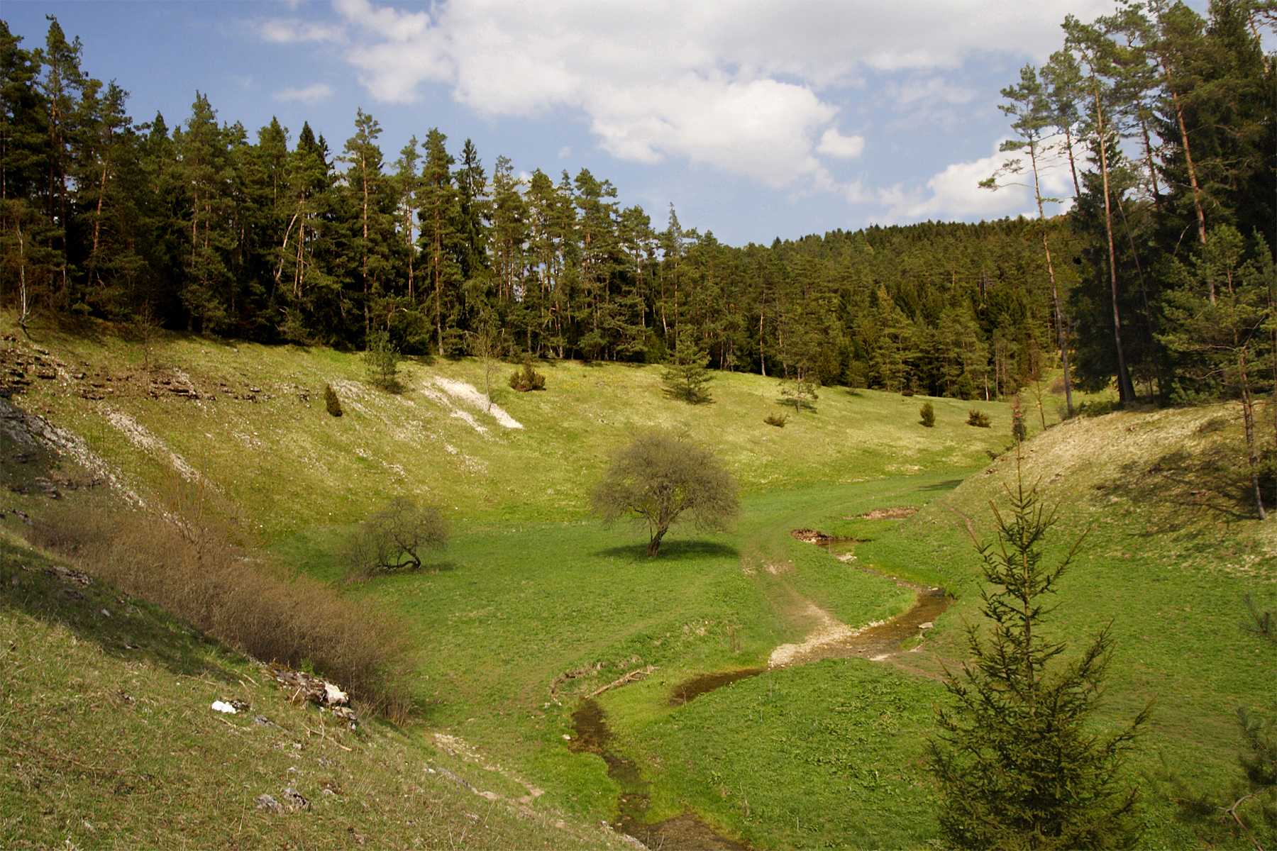 dry valley slightly above the karst springs of the rivulet Leinleiter, Franconian Alb. Two karst springs further up, periodically running in high water times - here called “Tummler” – may flood the valley ground impressively. Karst and river erosion, dominantly so in Pleistocene times, have deepened and formed the valley. Jurassic rock outcrops frequently along the slopes of the valley.